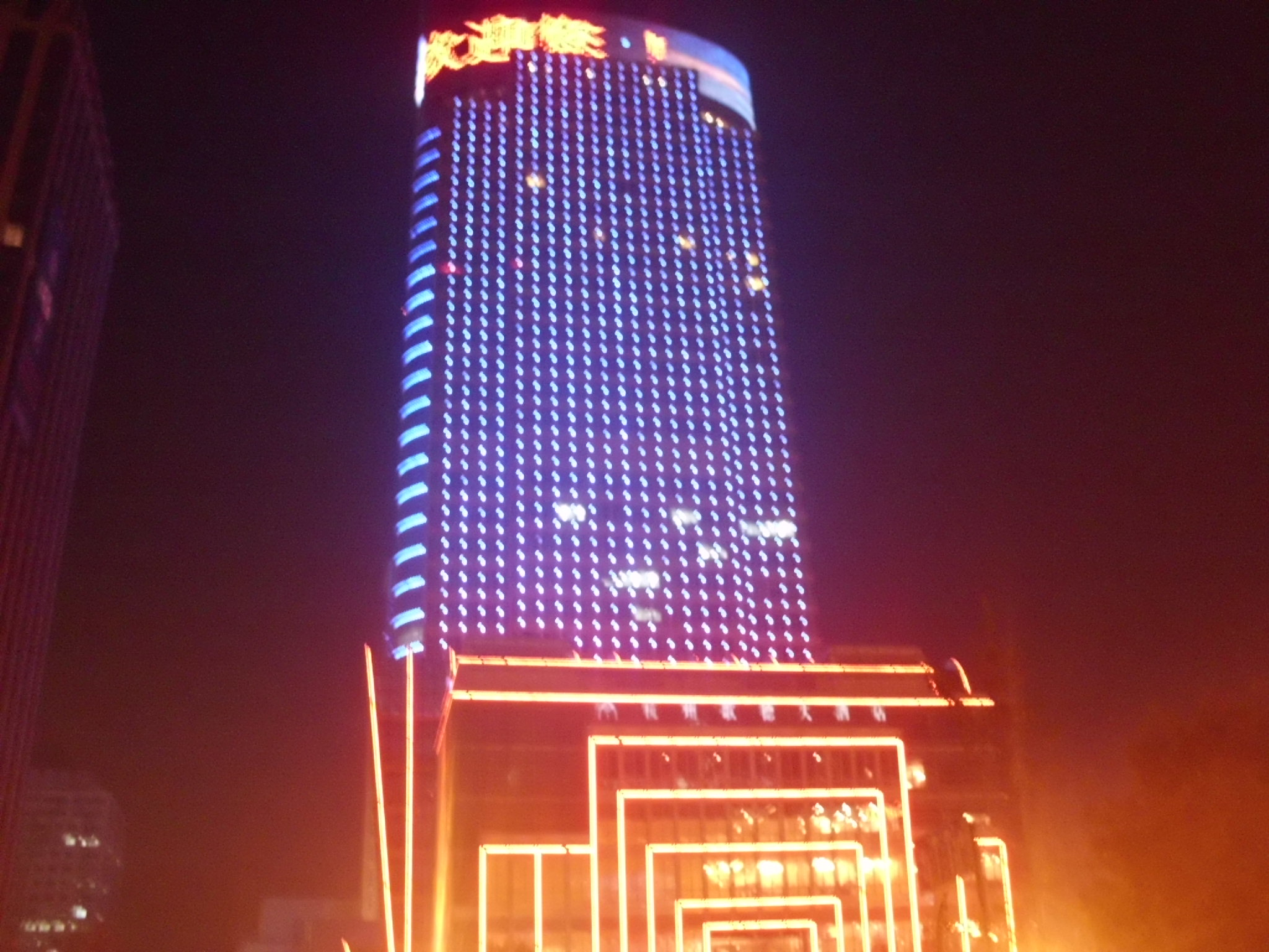 Hangzhou Goethe Hotel